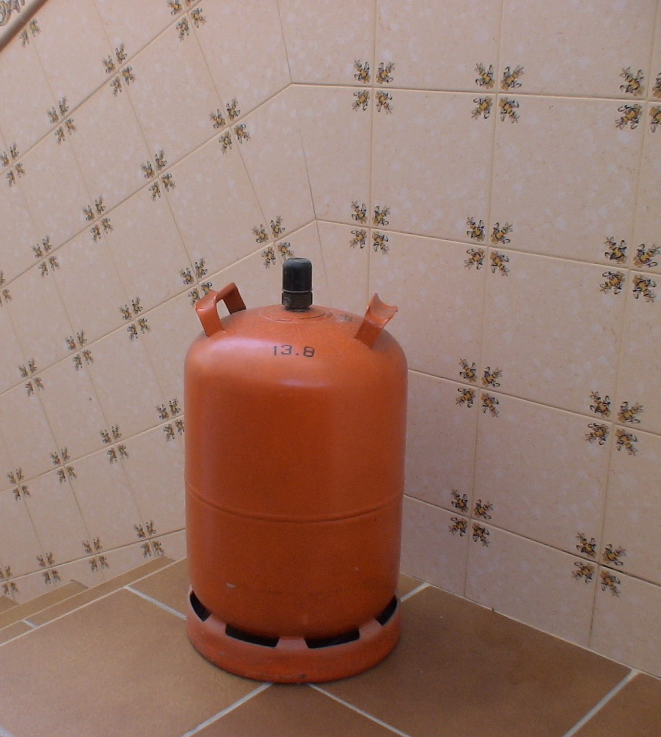 Butane gas cylinder